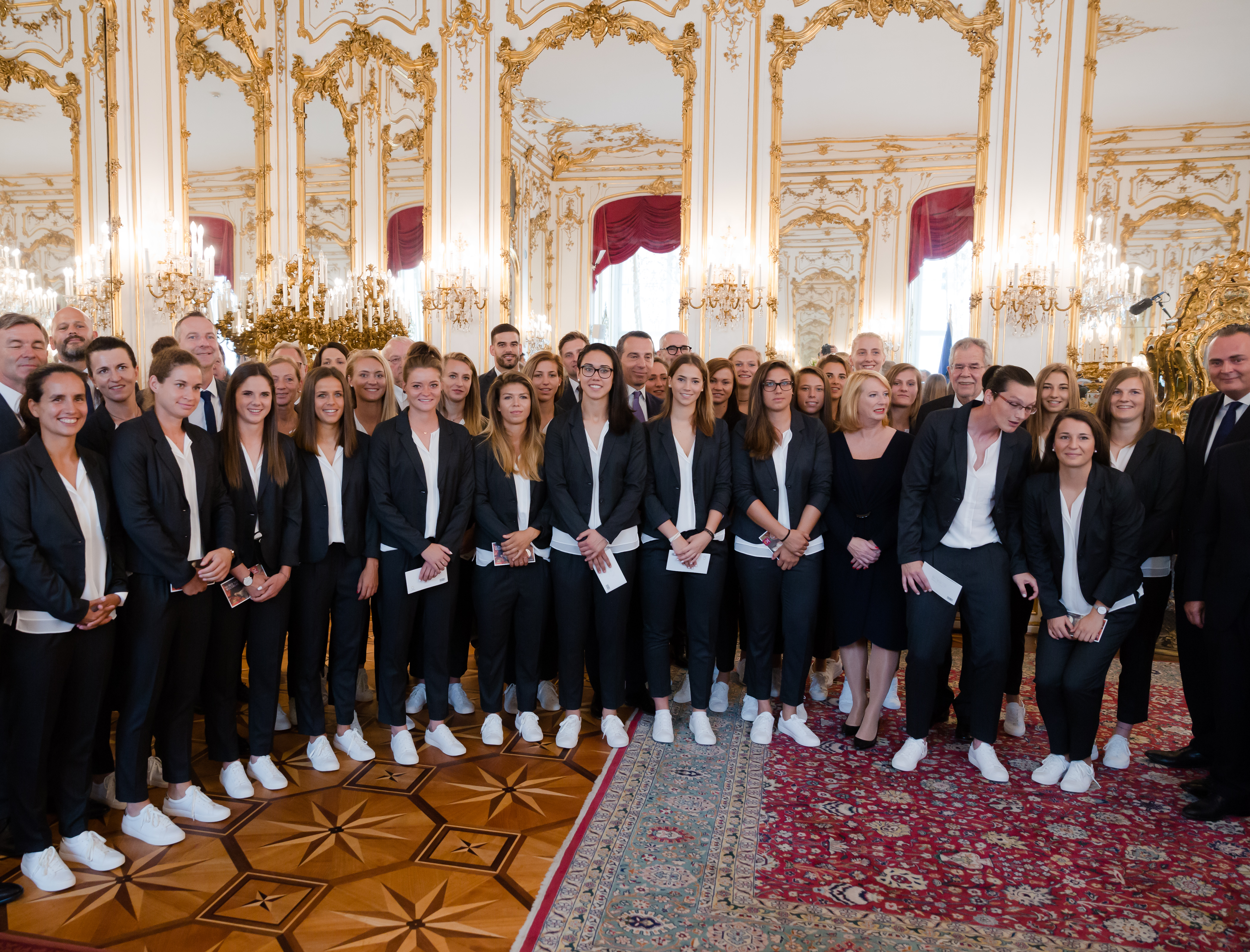 At the reception of the Austrian women's national football team for the UEFA Women's Euro 2017 by federal president Alexander Van der Bellen at Hofburg in Vienna, Austria.